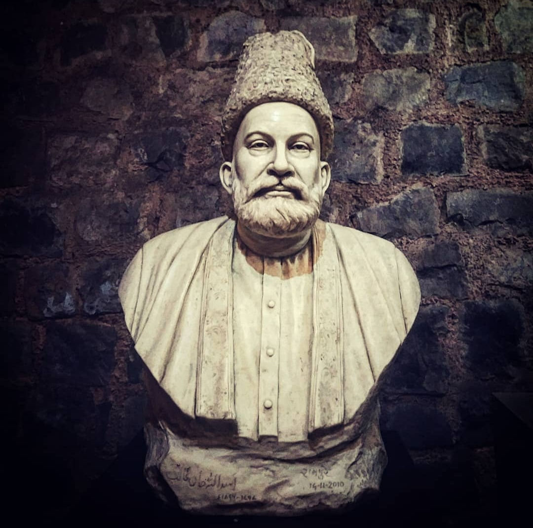 Mirza Asadullah Baig Khan was the famous urdu and Persian poet of the Indian History